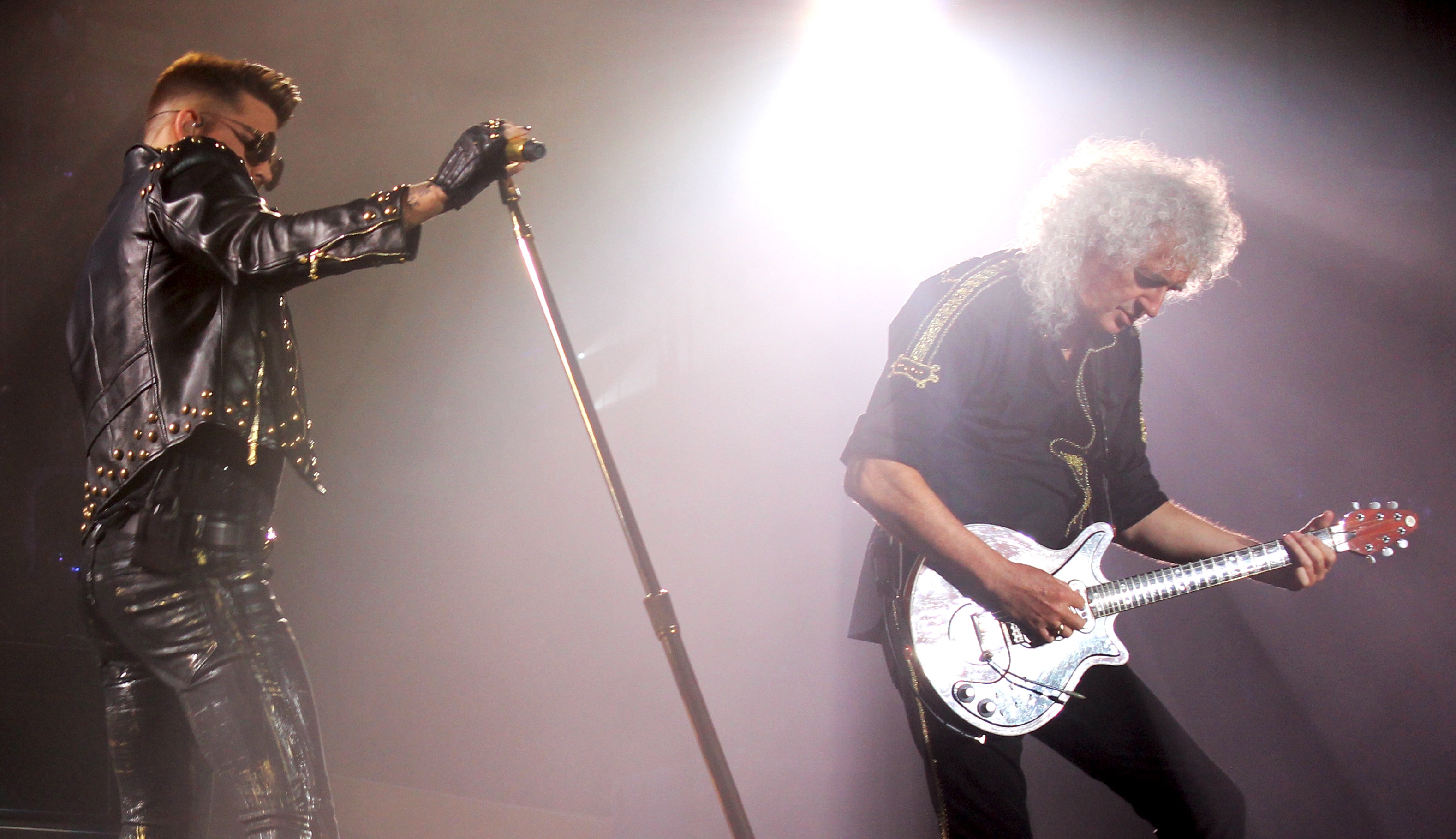 Brian May and Adam Lambert perform in Atlantic City, on 26th July, 2014.